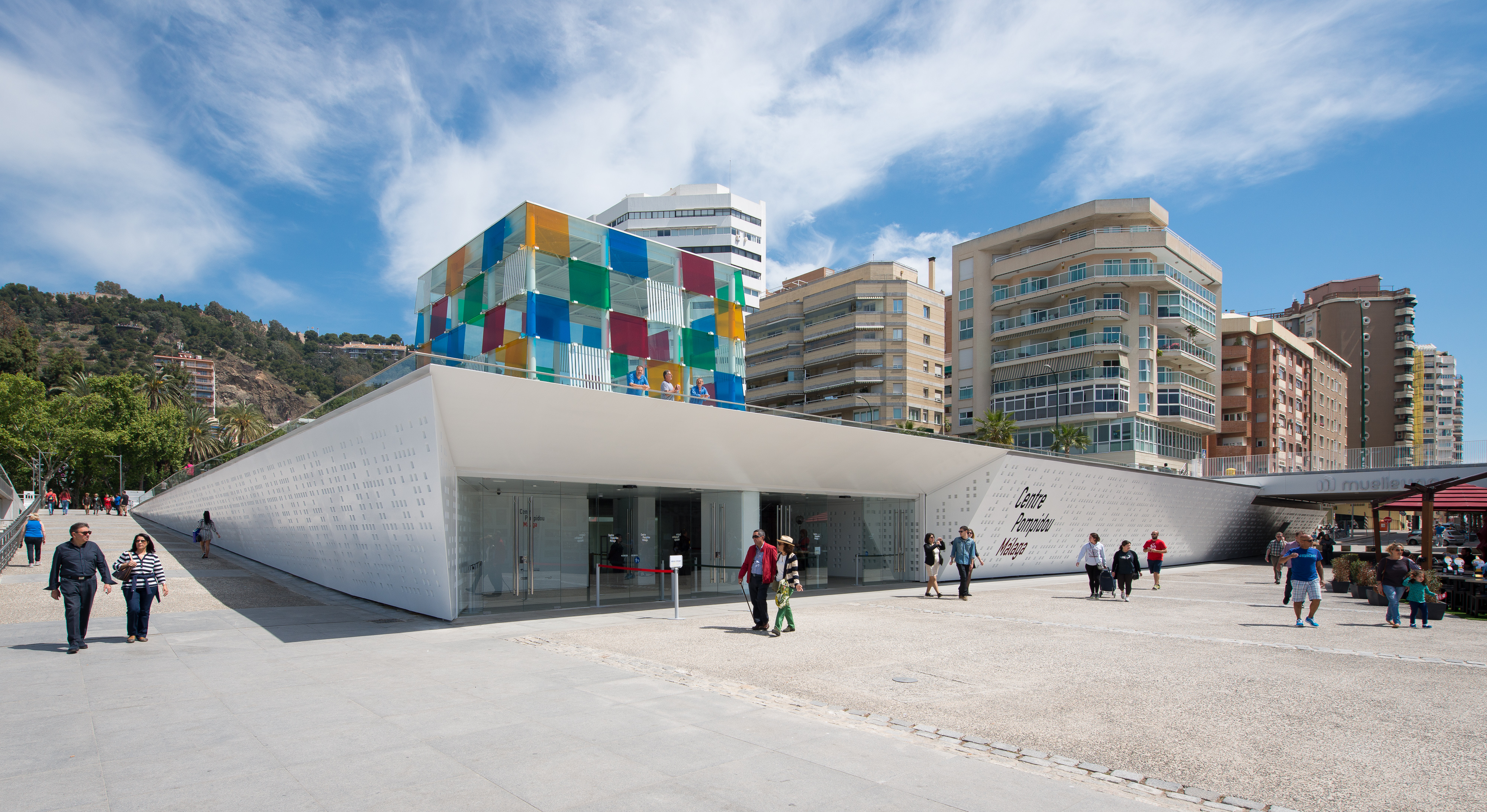 Branch of Centre Pompidou at Muelle Uno in Málaga, Spain (April 2015)